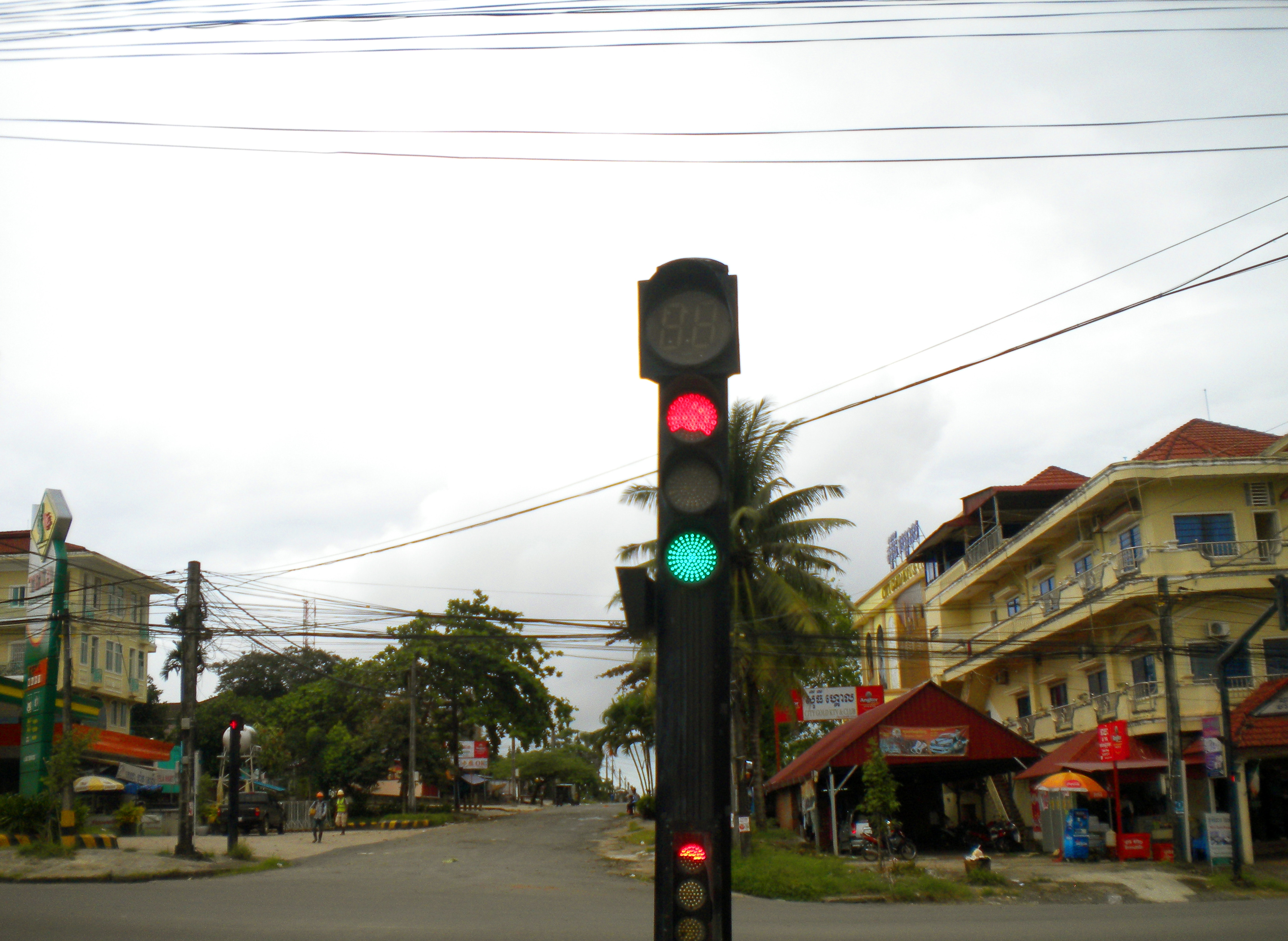 image of malfunctioning traffic light, Sihanoukville